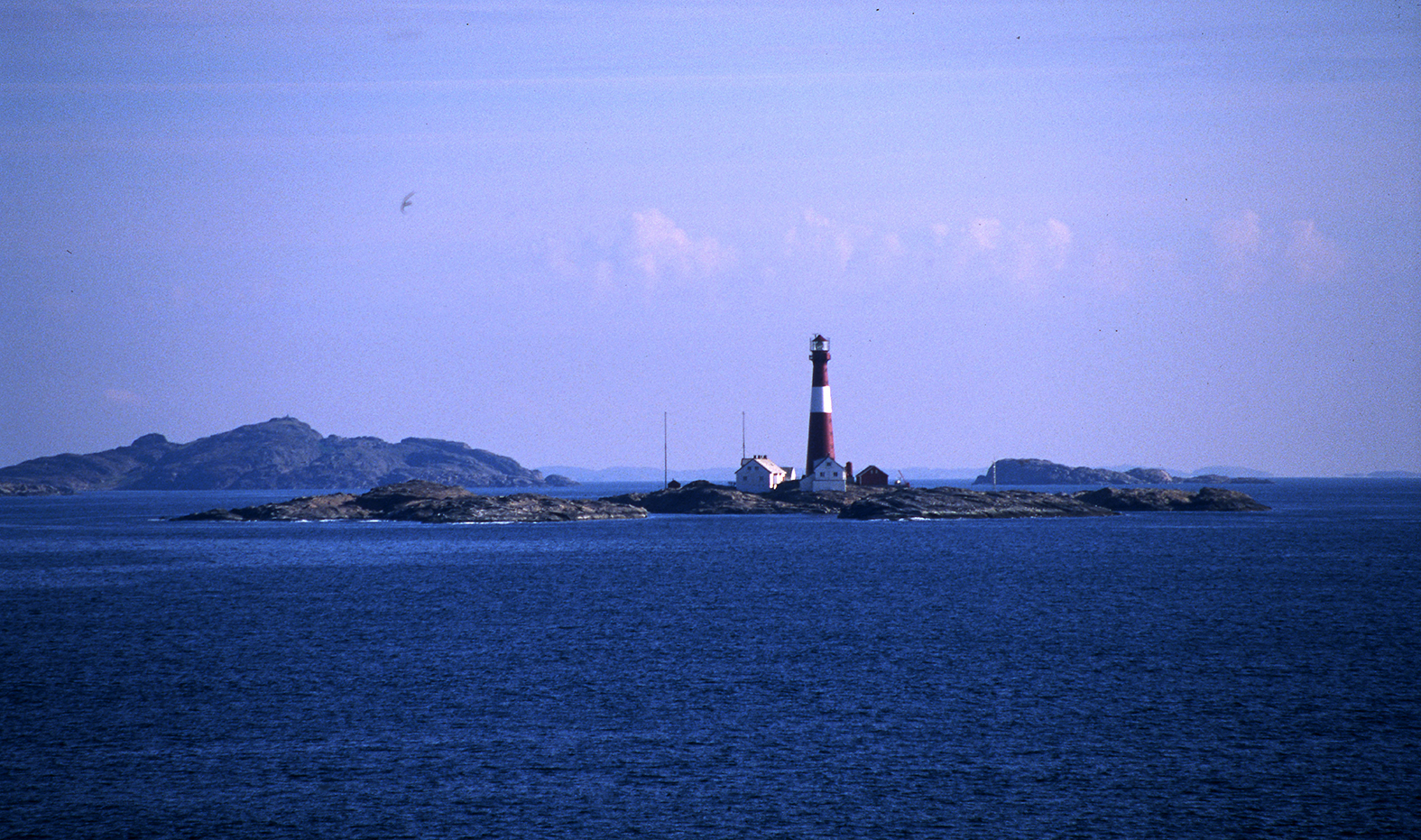 Light house Færder